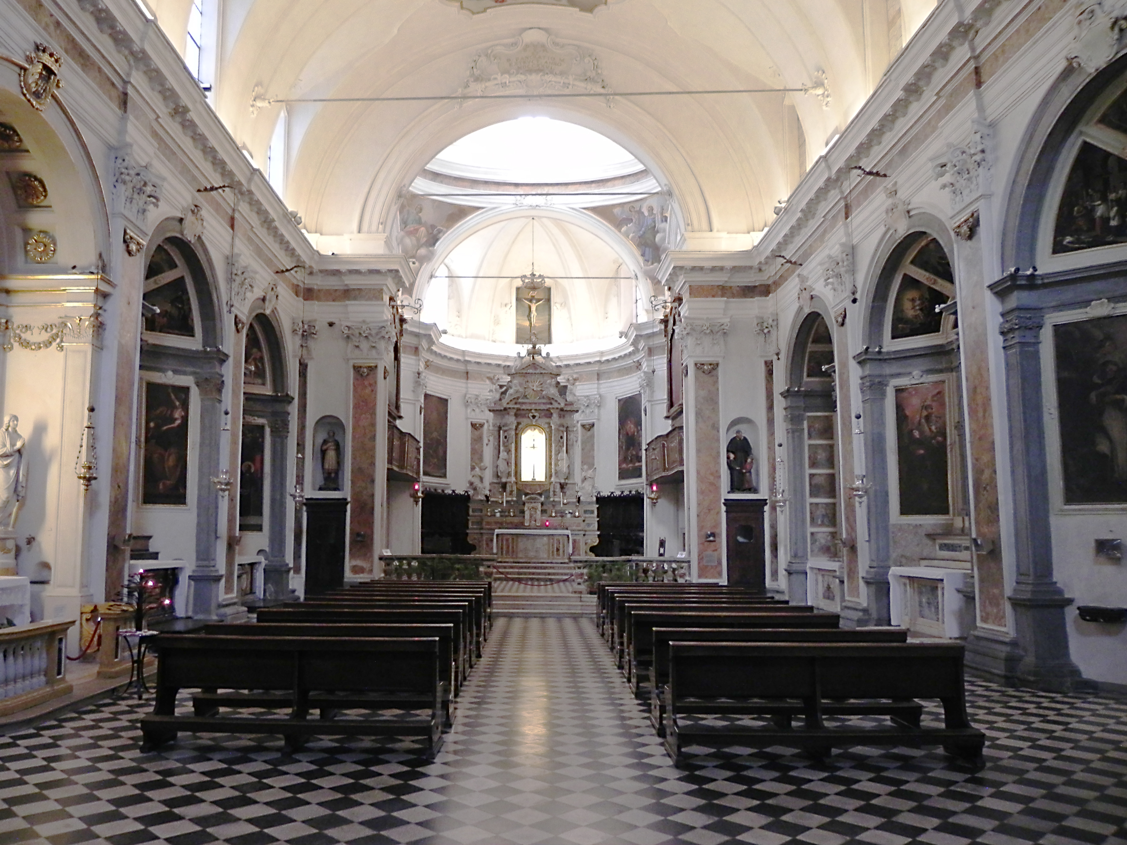 General view of the nave